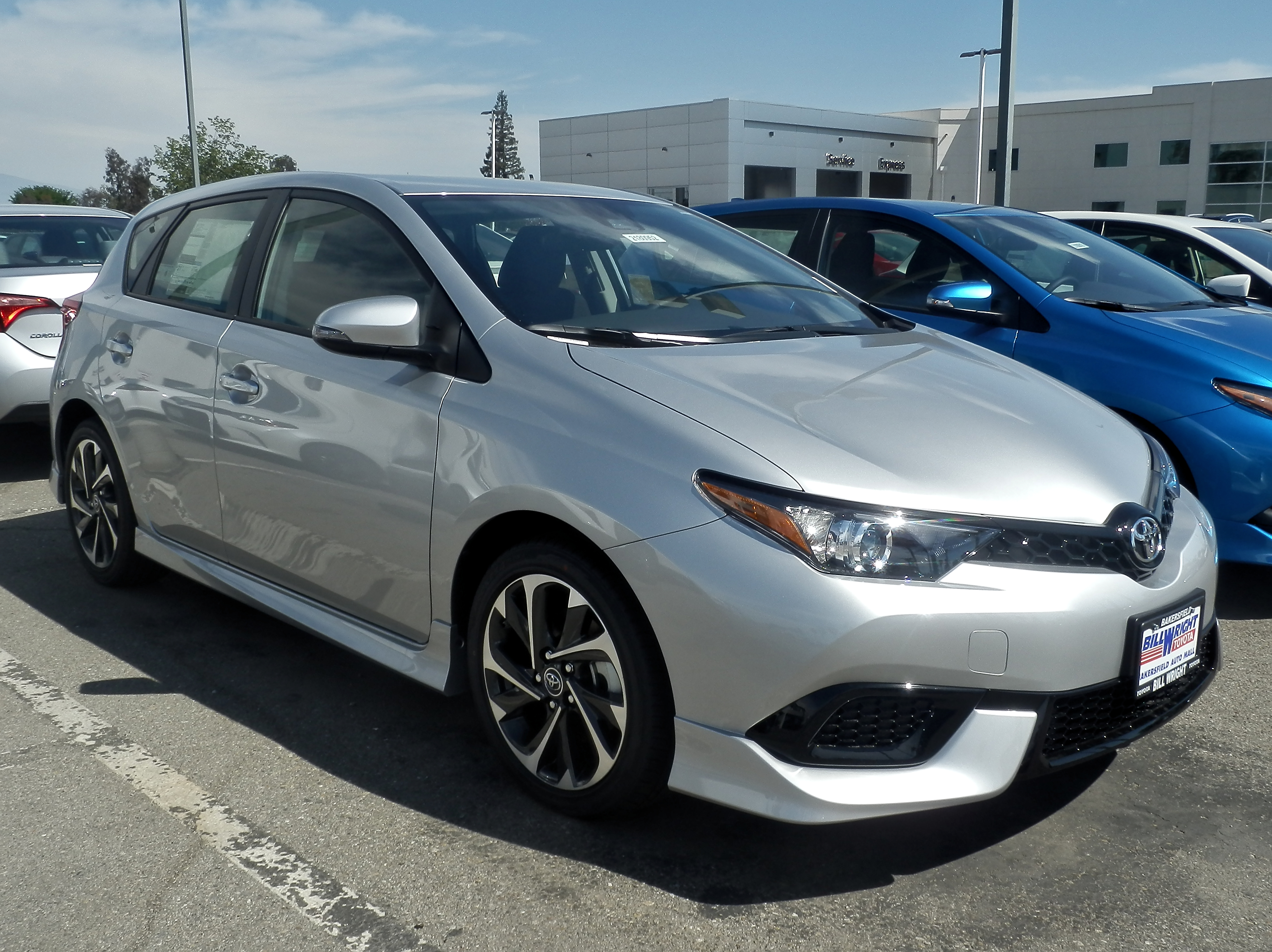 Toyota Corolla iM in Bakersfield